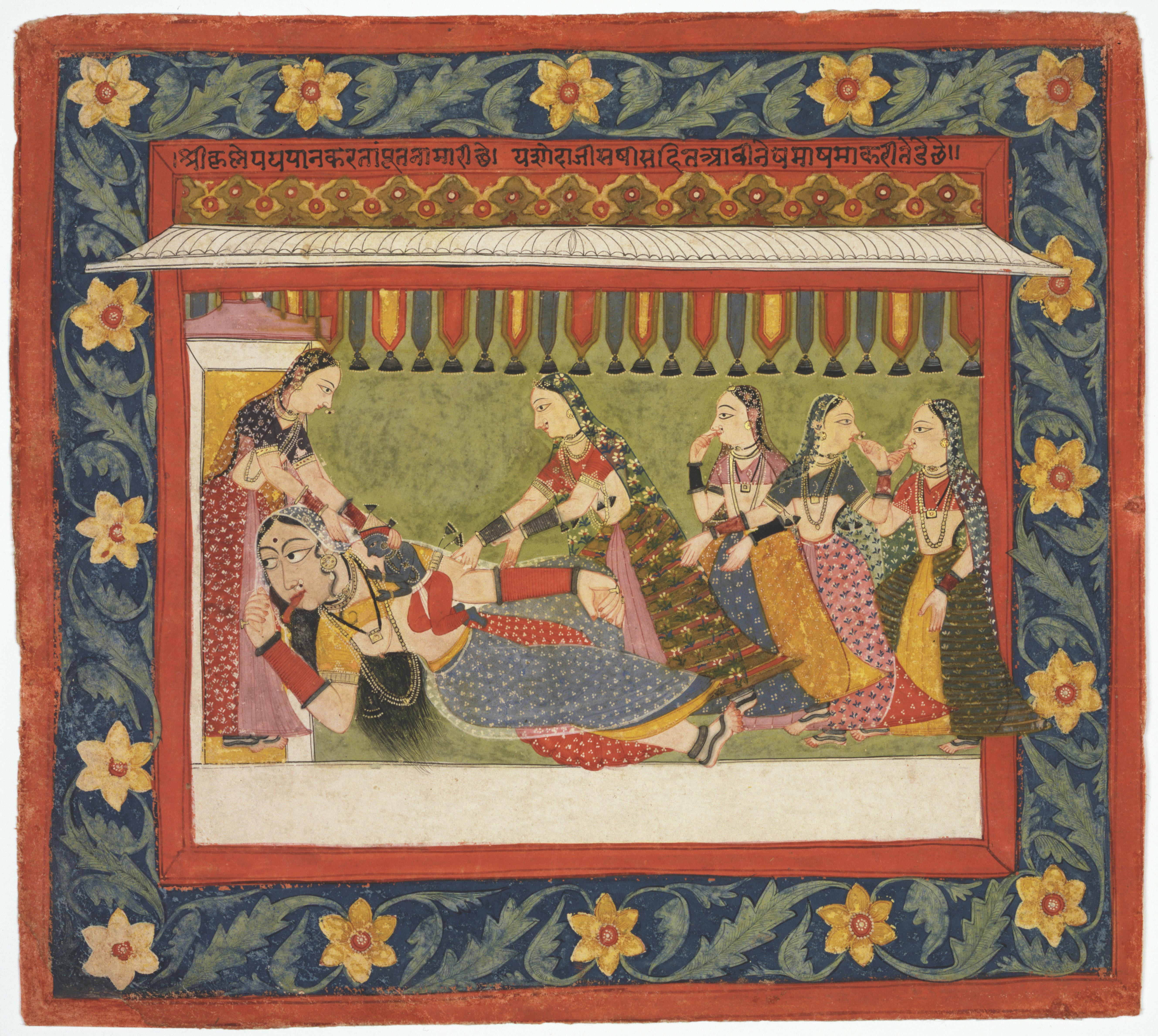 "Krishna Destroys the Demoness Putana Page from a dispersed series of the Bhagavata Purana (Story of the Lord Vishnu) Made in Sirohi, Rajasthan, India c. 1725 Artist/maker unknown, India, Rajasthan, Sirohi Opaque watercolor and gold on paper 9 3/8 x 10 1/2 inches (23.8 x 26.7 cm) Currently not on view 2004-149-54 Alvin O. Bellak Collection, 2004 Label The first asura sent by evil King Kansa to kill Krishna was the demoness Putana, the Devourer of Infants. She pretended to be a wet-nurse, but her breast was full of poison instead of milk. Krishna recognized her, but suckled anyway. Instead of dying from the poison, however, the divine baby sucked so forcefully that he killed the demoness. In this illustration, Krishna kneels triumphantly on Putana's enormous chest as she dies, her breast and tongue lolling, while the village women look on in wonder."